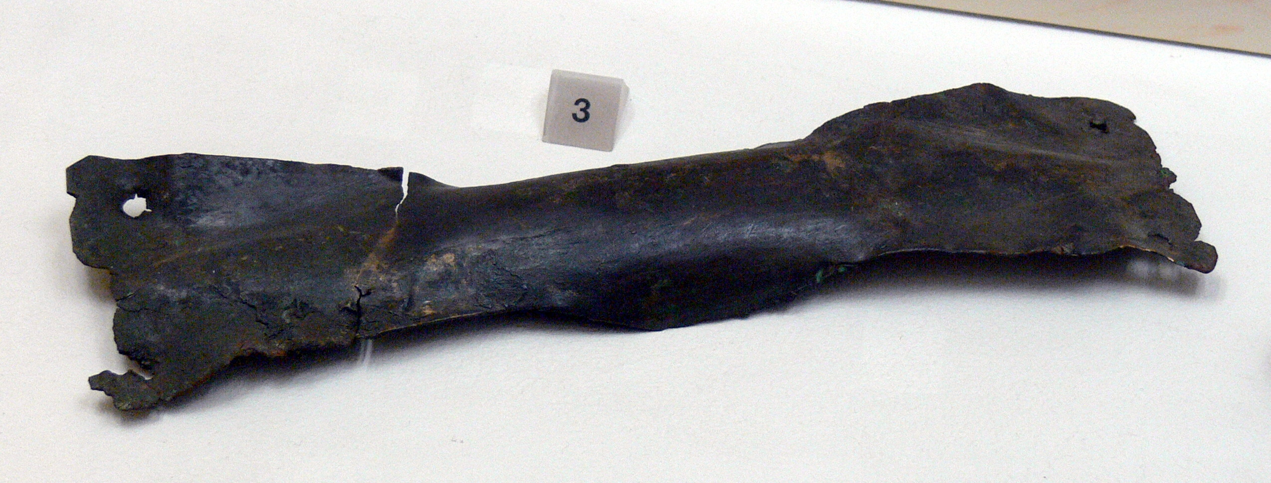 Enns ( Upper Austria ). Museum Lauriacum: Iron shield grip ( ansa ).